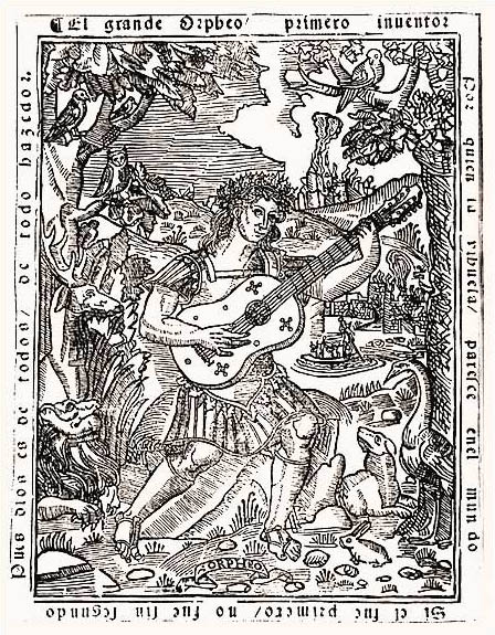 Orpheus playing a vihuela. Image from the famous tabulature by Luis de Milan. The text surrounding the image reads: "El grande Orpheo / primero inventor, Por quien la vihuela / paresce en el mundo, Si el fue primero / no fue sin segundo, Pues dios es de todos / de todo hazedor."